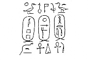 Inscription from a fragmented stone vessel bearing the cartouches of the Hyksos pharaoh Apophis of the 15th Dynasty, and of his daughter, princess Herit. The fragment was found by Howard Carter in 1916, in the purported tomb of pharaoh Amenhotep I at Dra Abu el-Naga (tomb ANB). The original fragment is now in the Metropolitan Museum of Art, New York (acc. no. 21.7.7).